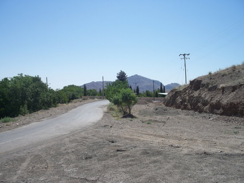 شیرکوه